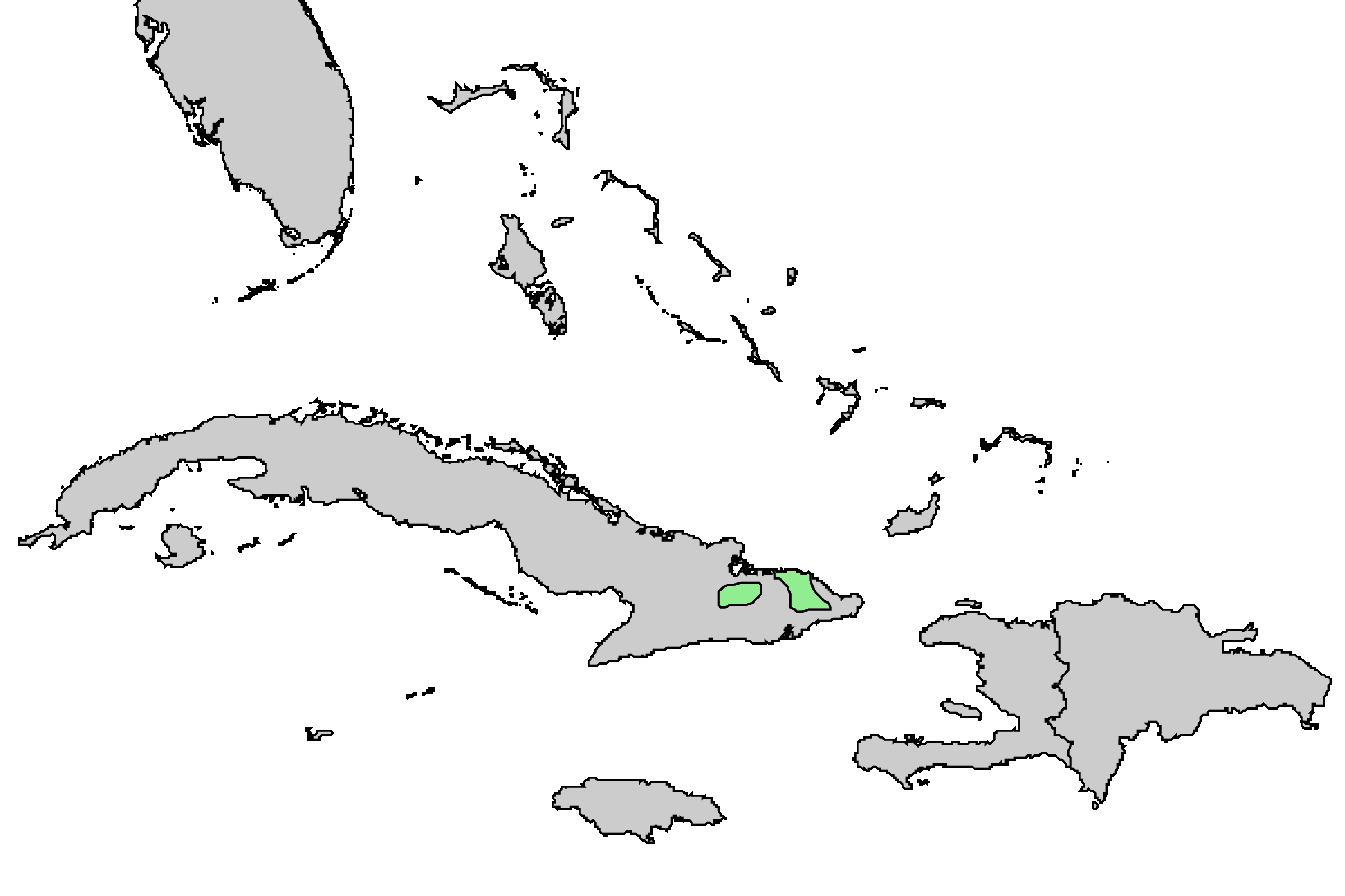 Natural distribution map for Pinus cubensis